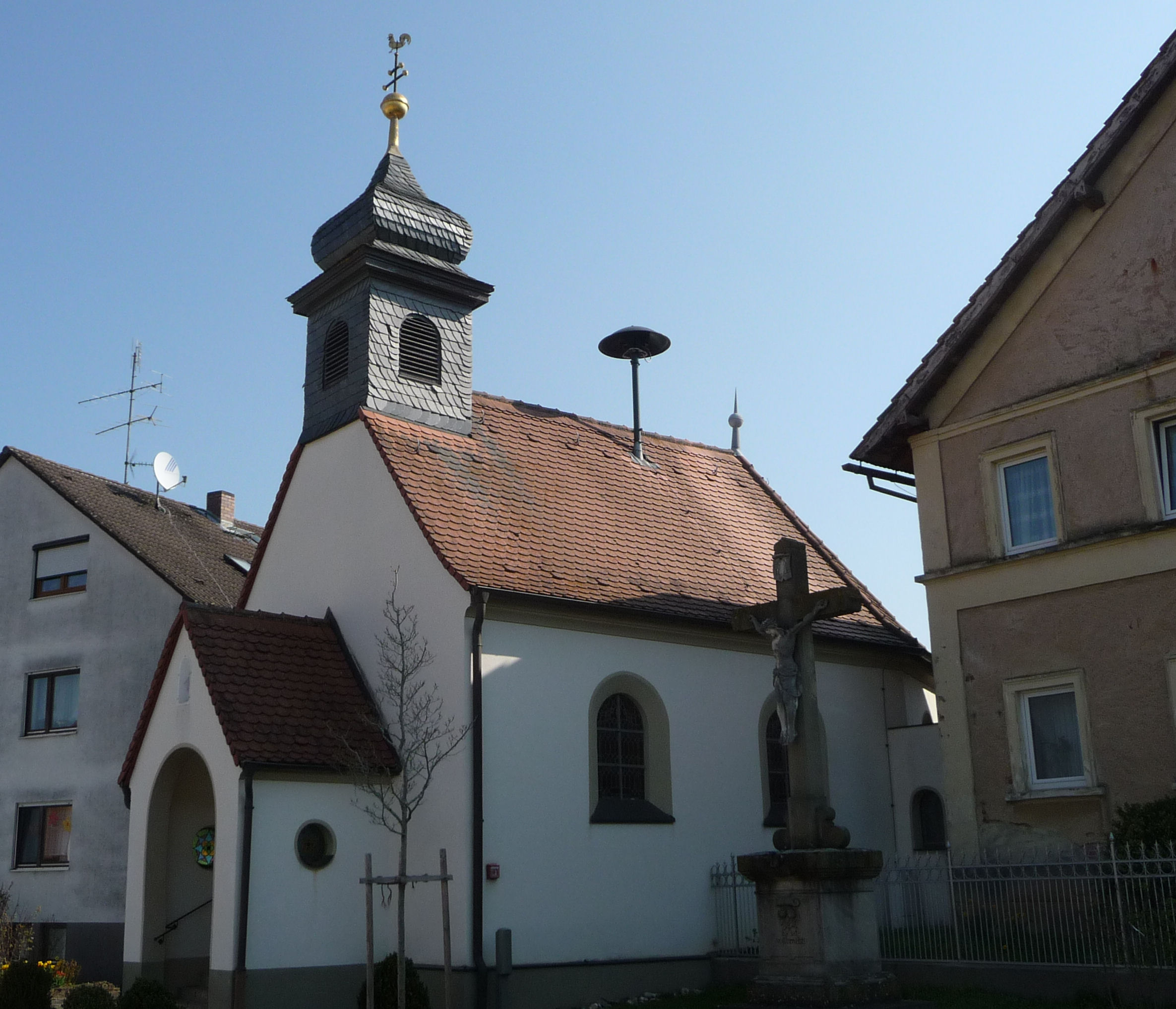 Meedensdorf, Landkreis Bamberg, Germany